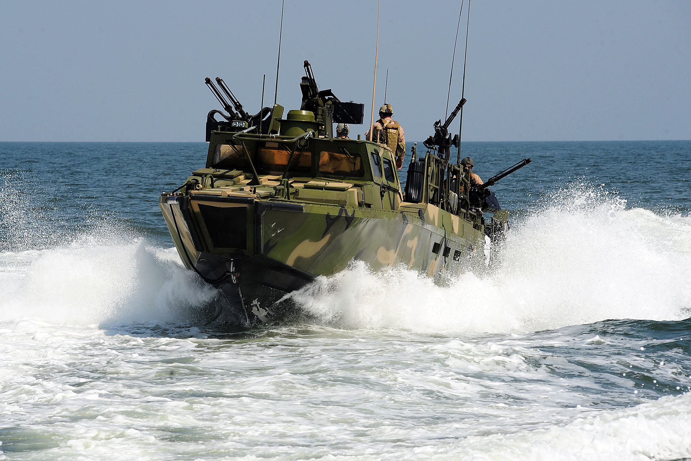 Sailors assigned to Riverine Squadron 2 participate in pre-deployment exercises in a riverine command boat near Norfolk, Va., on July 12, 2011. Riverine Squadron 2 is stationed at Joint Expeditionary Base Little Creek-Fort Story, Va.